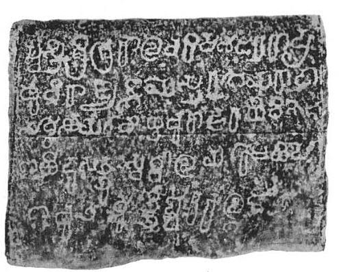 Hattimattur ("cotton Mattur) is a village in the Karajgi taluk of modern Dharwar (or Dharwad) district of Karnataka state, India. The inscription is in the old Kannada script and language. Ref source: Epigraphia Indica and Record of the Archæological Survey of India, Volume 6, pp.160-162